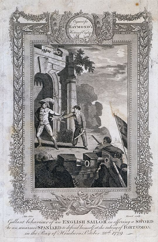 Gallant behaviour of an English Sailor in offering a sword to an unarmed Spaniard to defend himself, at the taking of Fort Omoa, in the Bay of Honduras, October 20th 1779. Engraved for Raymond's History of England